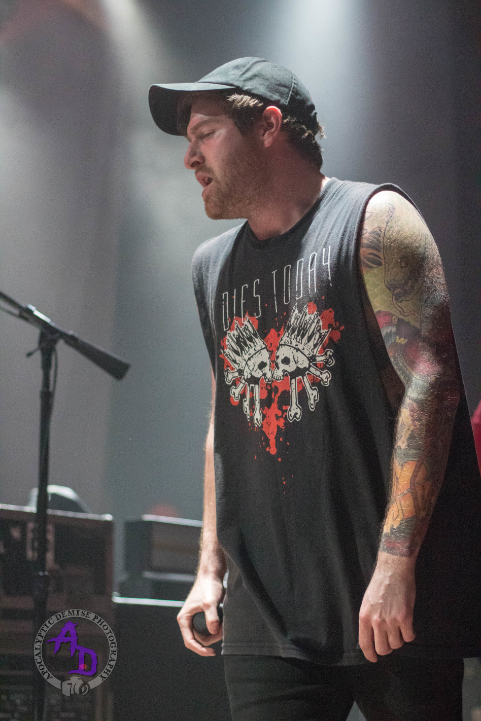 Brendan Murphy performing with Counterparts in February, 2018.